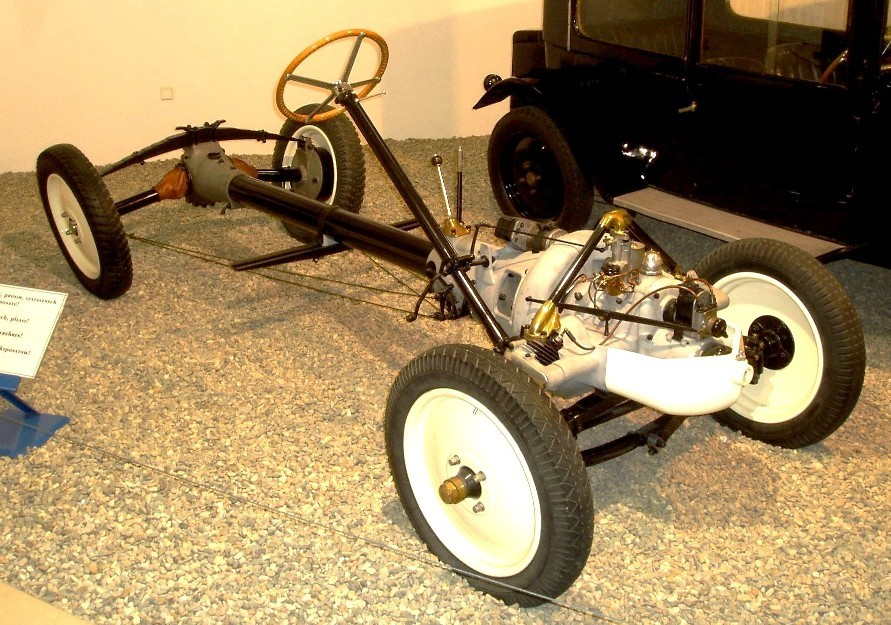 Chassis Tatra 11 (1923) Photo: Ondrej Ertl (2006), Kopřivnice, Factory Museum Tatra